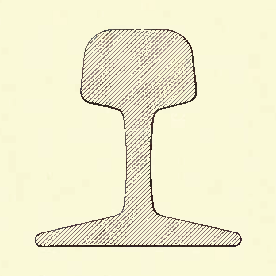 Standard rail profile